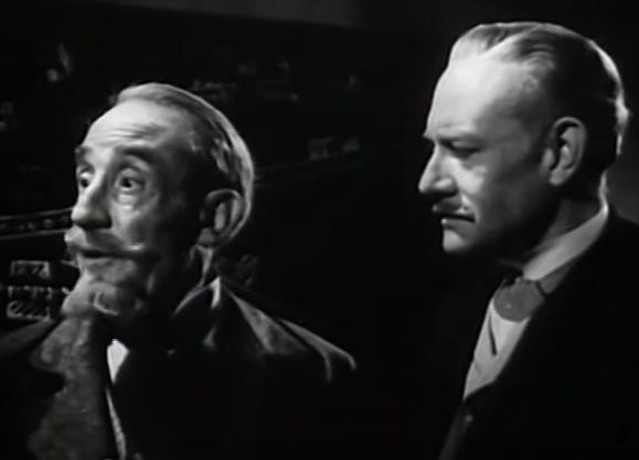 Houseley Stevenson (left) and Conrad Nagel in The Vicious Circle (1948) aka Woman in Brown - cropped screenshot